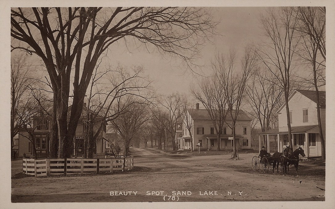 Photograph postcard picture of street scene in Sand Lake, New York, showing horse-drawn carriage, "Cash Store" (at right) and other buildings (including one at left with a sign which may say "Hotel").